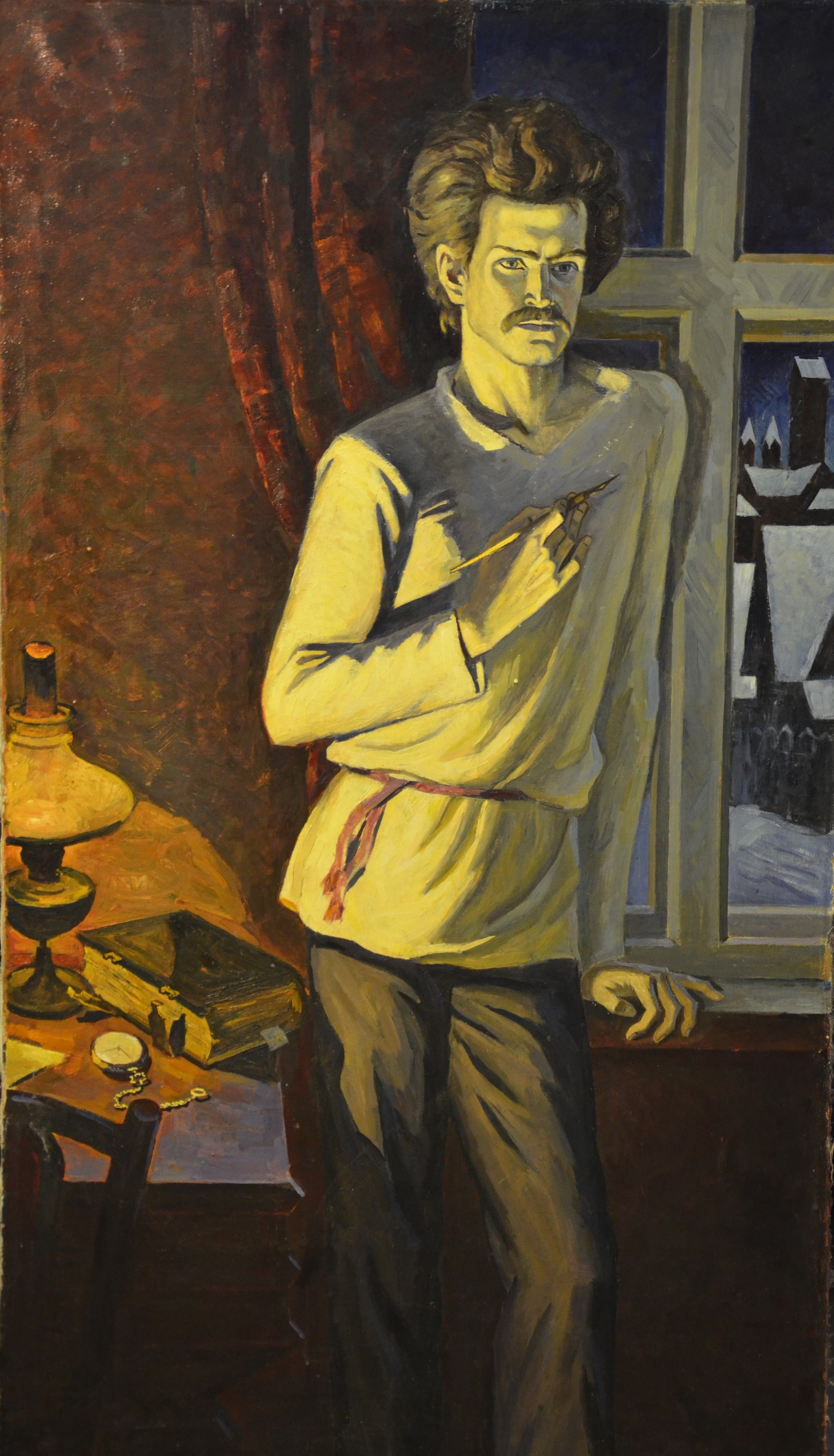 Belarusian artist Viktar Shmataŭ. "Portrait of Maxim Bogdanovich", 1981. Oil on canvas.